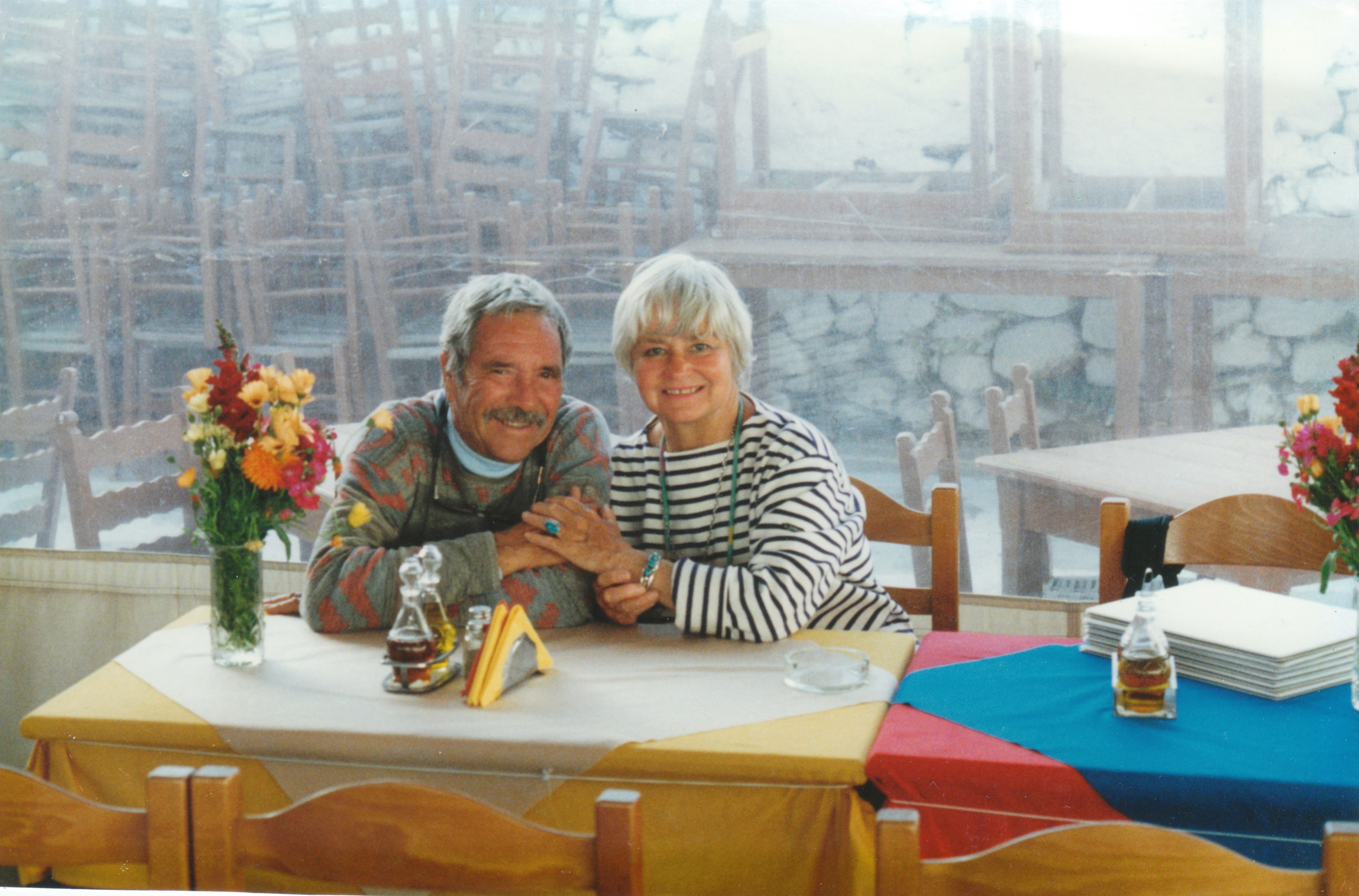 This is Helen Schreider's photo of Frank and herself.